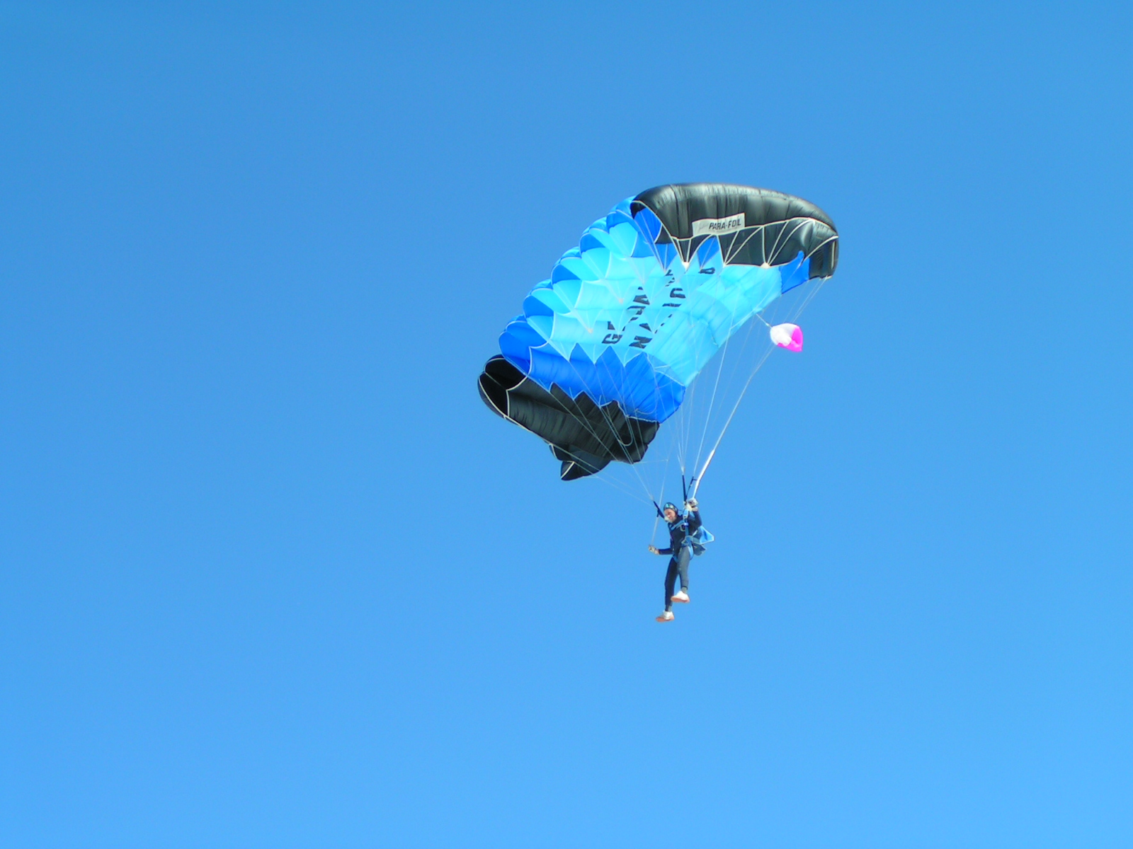 Description Parachutisme DateSourceOwn work by the original uploaderAuthorPaternel 1 Catégorie: Image GFDL} Parachutisme